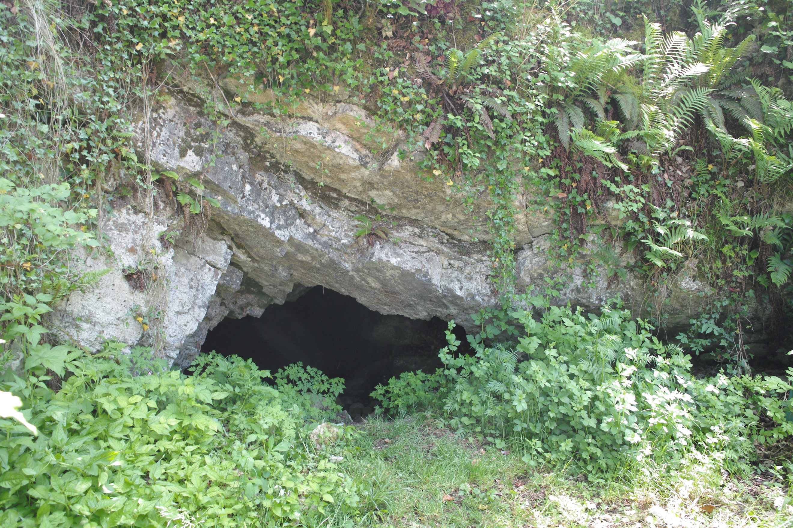 Remnants of what would have become the northern tunnel portal of the failed Wasserfallen railway project in Switzerland, started in 1873 and aborted in 1874. The tunnel would have connected Reigoldswil in the canton of Basel-Country with Mümliswil in the canton of Solothurn. Picture taken in Reigoldswil, near the Wasserfallen gondola lift station.